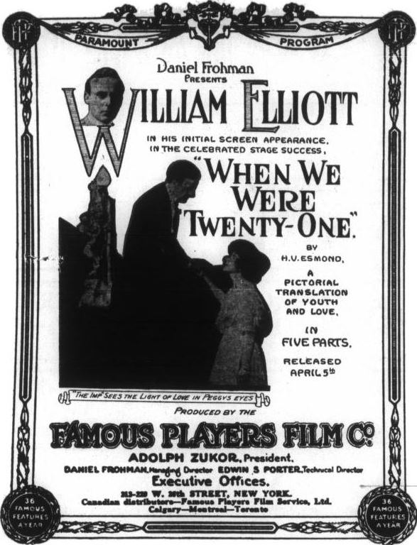 Advertisement for the American comedy film When We Were Twenty-One (1915) with William Elliott (1879 - 1932) and Winifred Allen, on page 29 of the March 26, 1915 Variety.